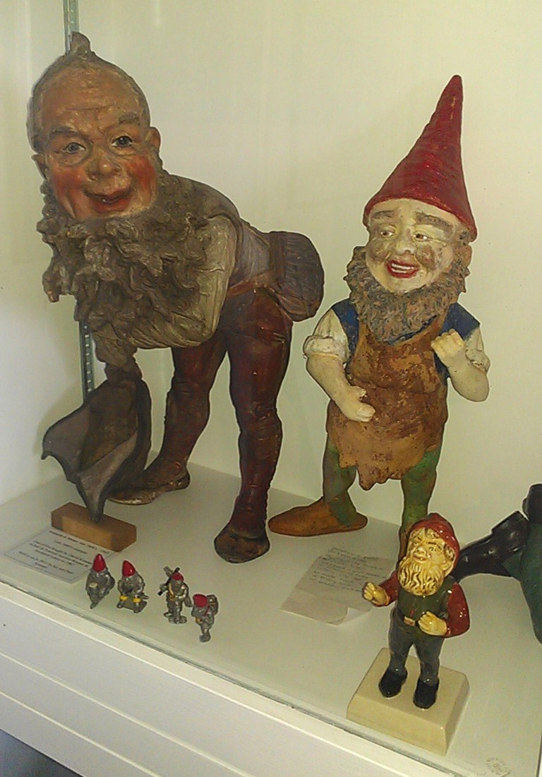 Historic garden gnomes on display at the Gnome Reserve in Devon. The ornament on the left of the image was produced by Eckardt and Mentz in the late nineteenth-century, and purchased by David Keenan in 1989, before being sold to the Reserve in 2012.